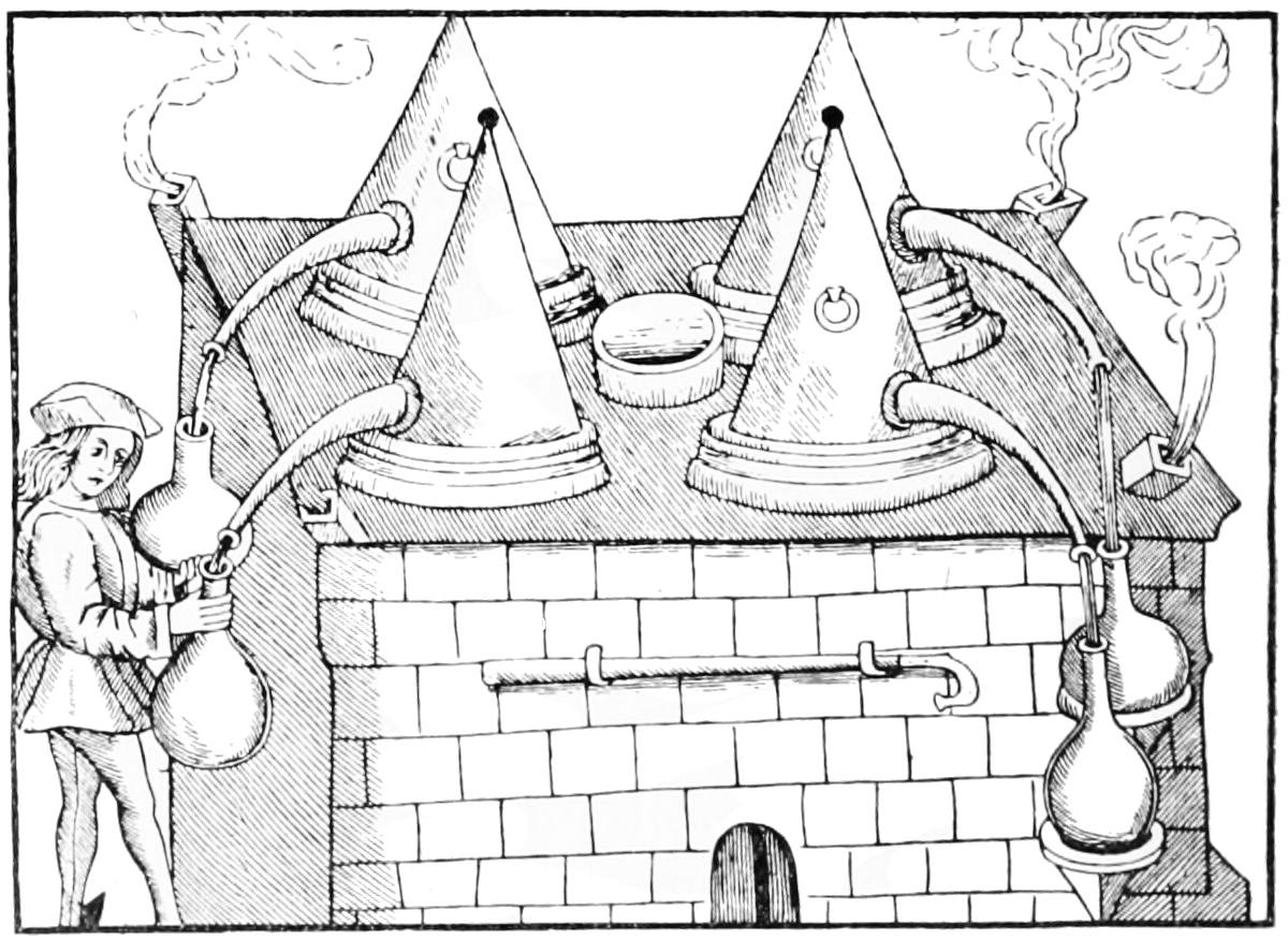 Ancient still for extraction of essential oils and perfumes